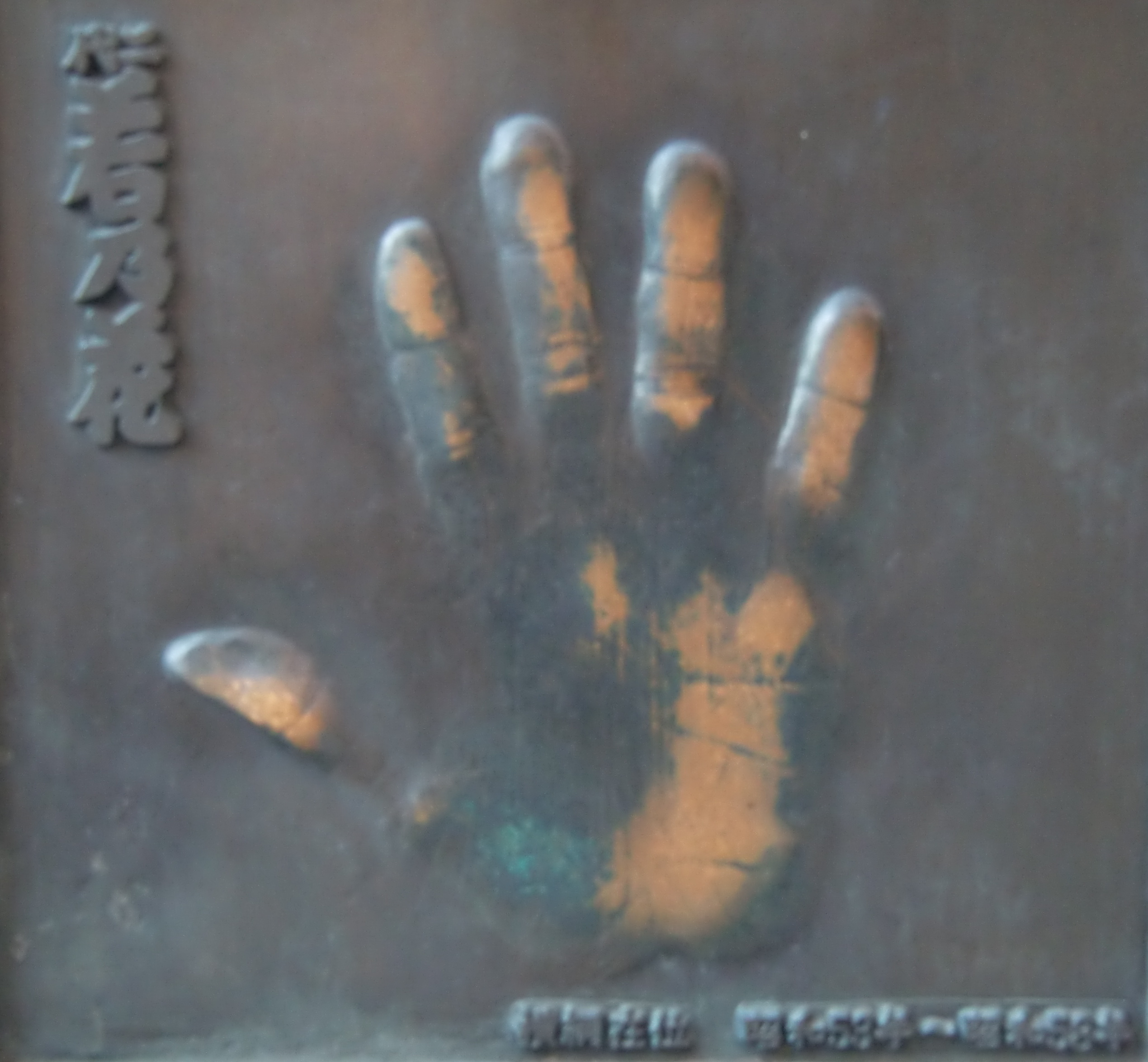 image taken from monument in Ryogoku, Tokyo